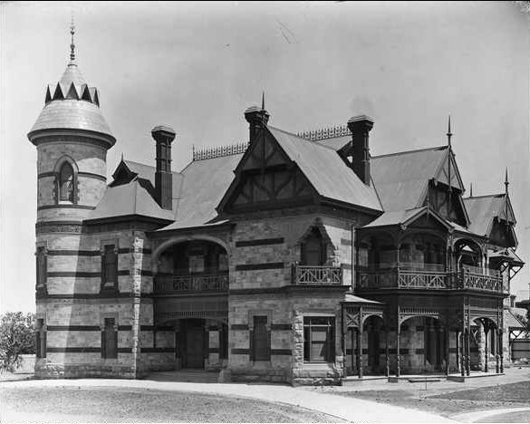 "Carclew", North Adelaide - Montefiore Hill, between Jeffcott St. and Strangways Tce., 30th November 1897. Jeffcott St. frontage: 69 1/2 yards. Montefiore Hill frontage: 69 1/2 yards. Originally built by Hugh Dixson and afterwards owned by Hugh Denison, tobacco magnate. Later, the property of Sir John Langdon Bonython.